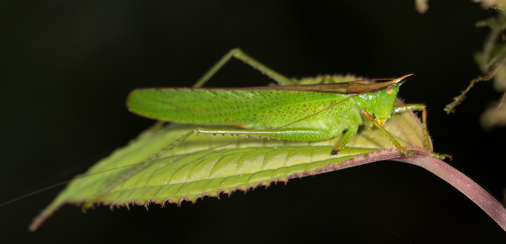 Melanophoxus brunneri. Species of insect.